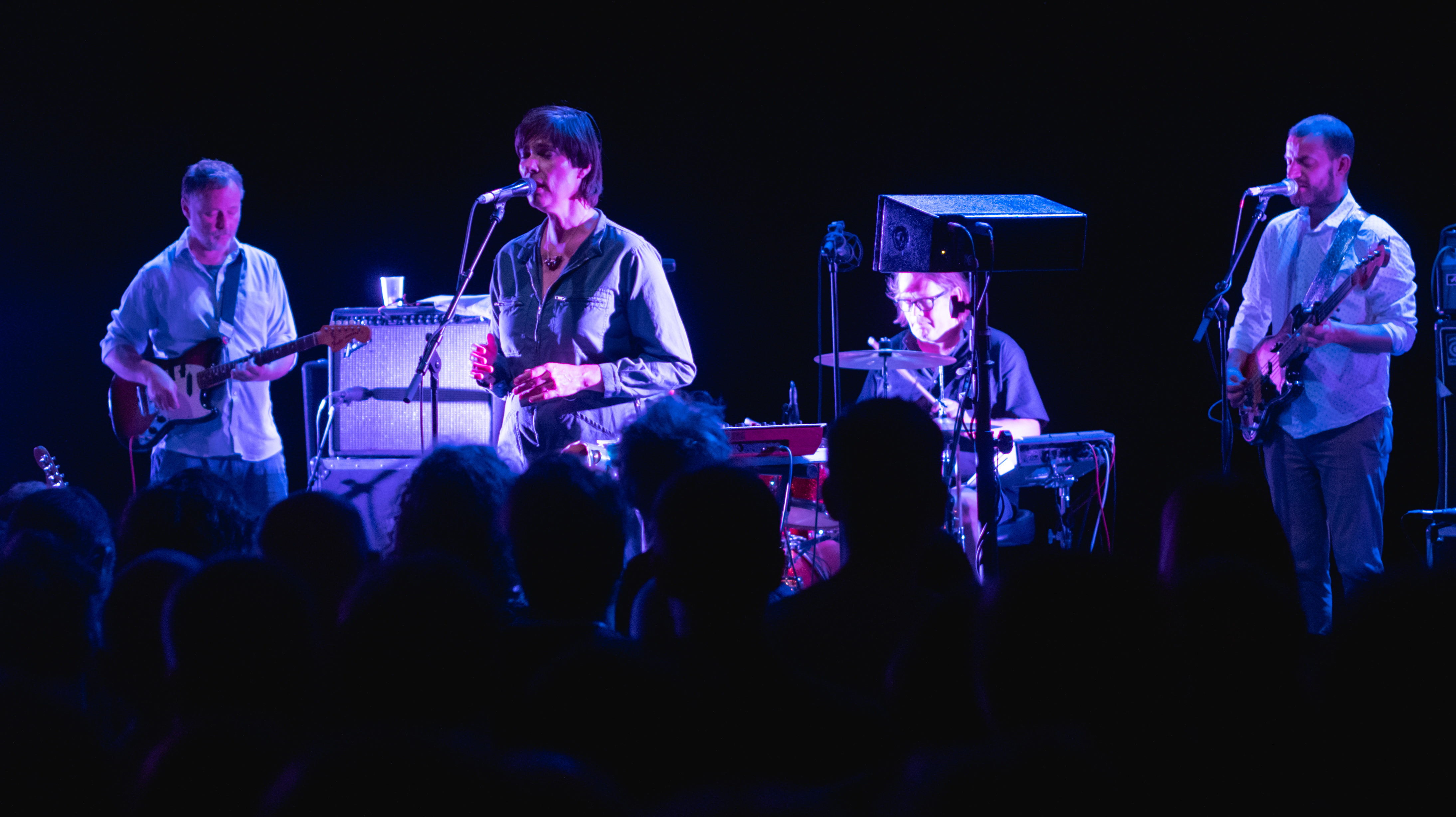 StereolabShepBush120619-10